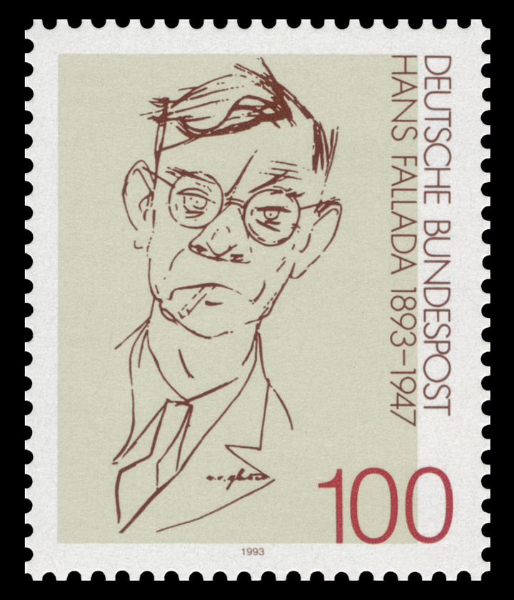 100th day of birth of Hans Fallada (1893—1947)